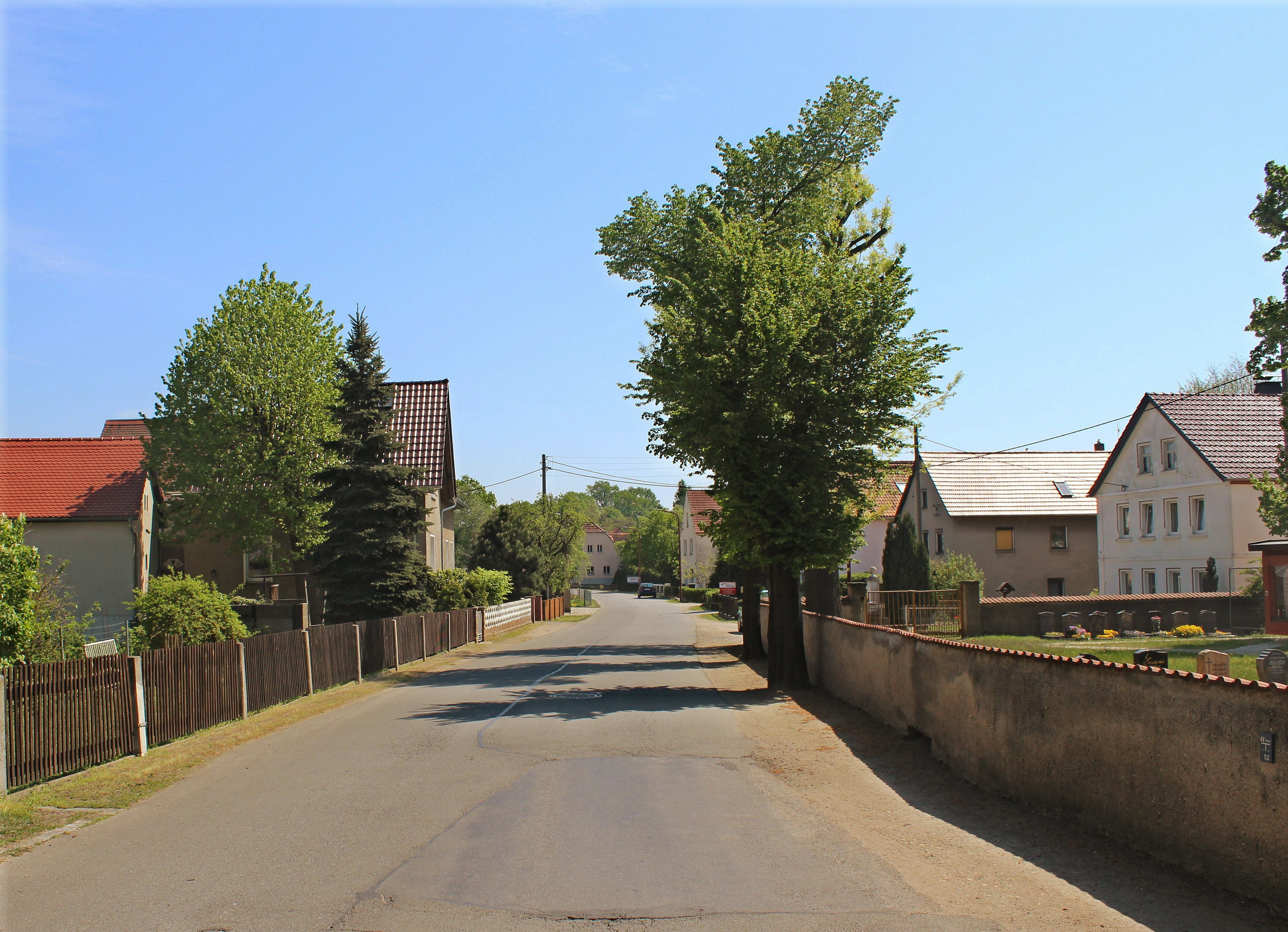 The road "Mitteldorfstraße" of Strauch in Saxony.